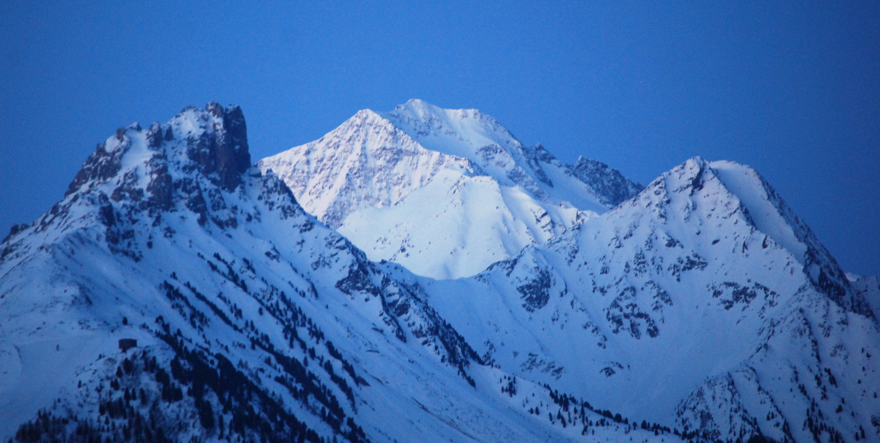 Elferspitze-Habicht-Zwöferspitze from Northeast